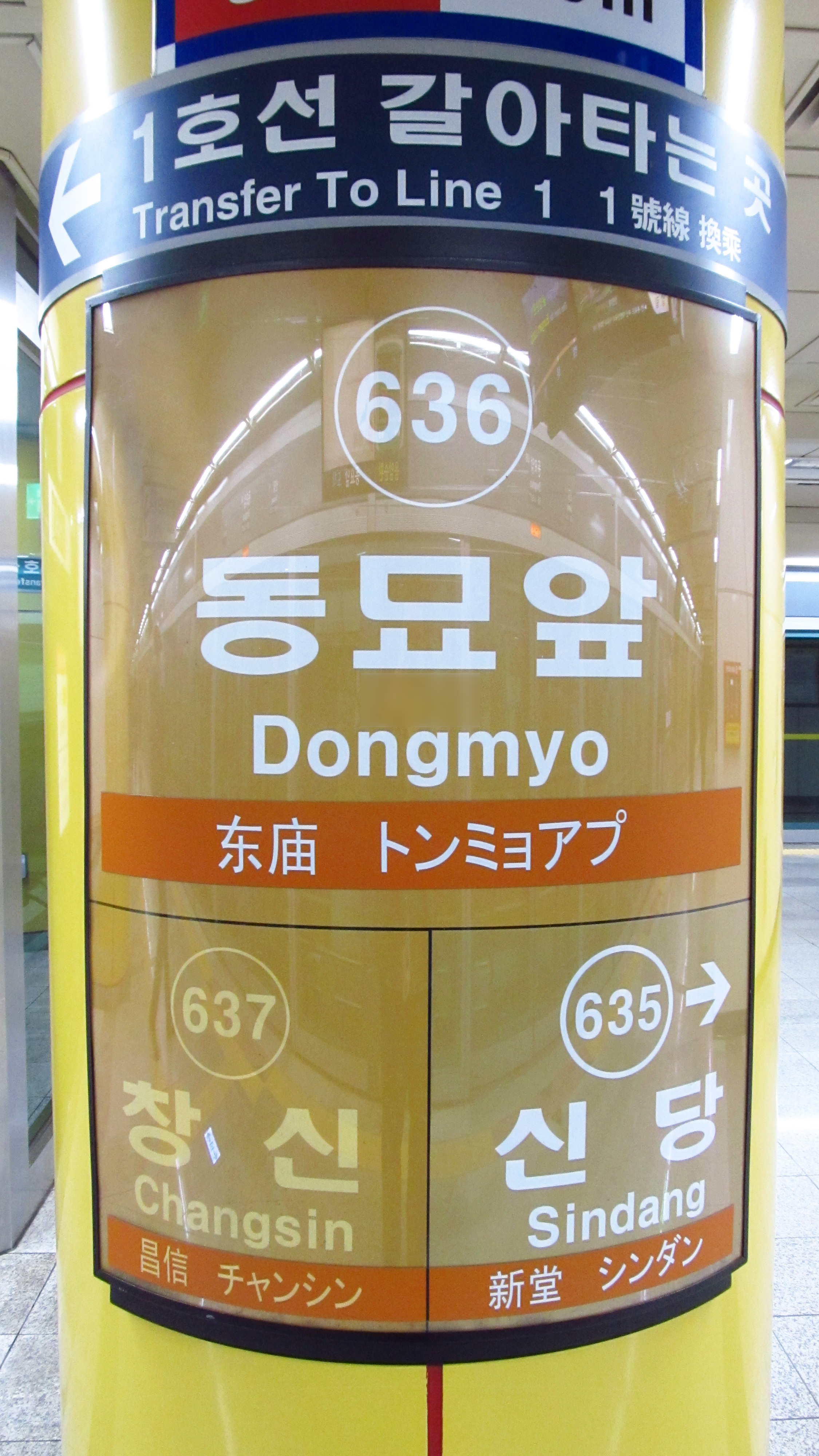 A sign of Dongmyo Station on Seoul Subway Line 6